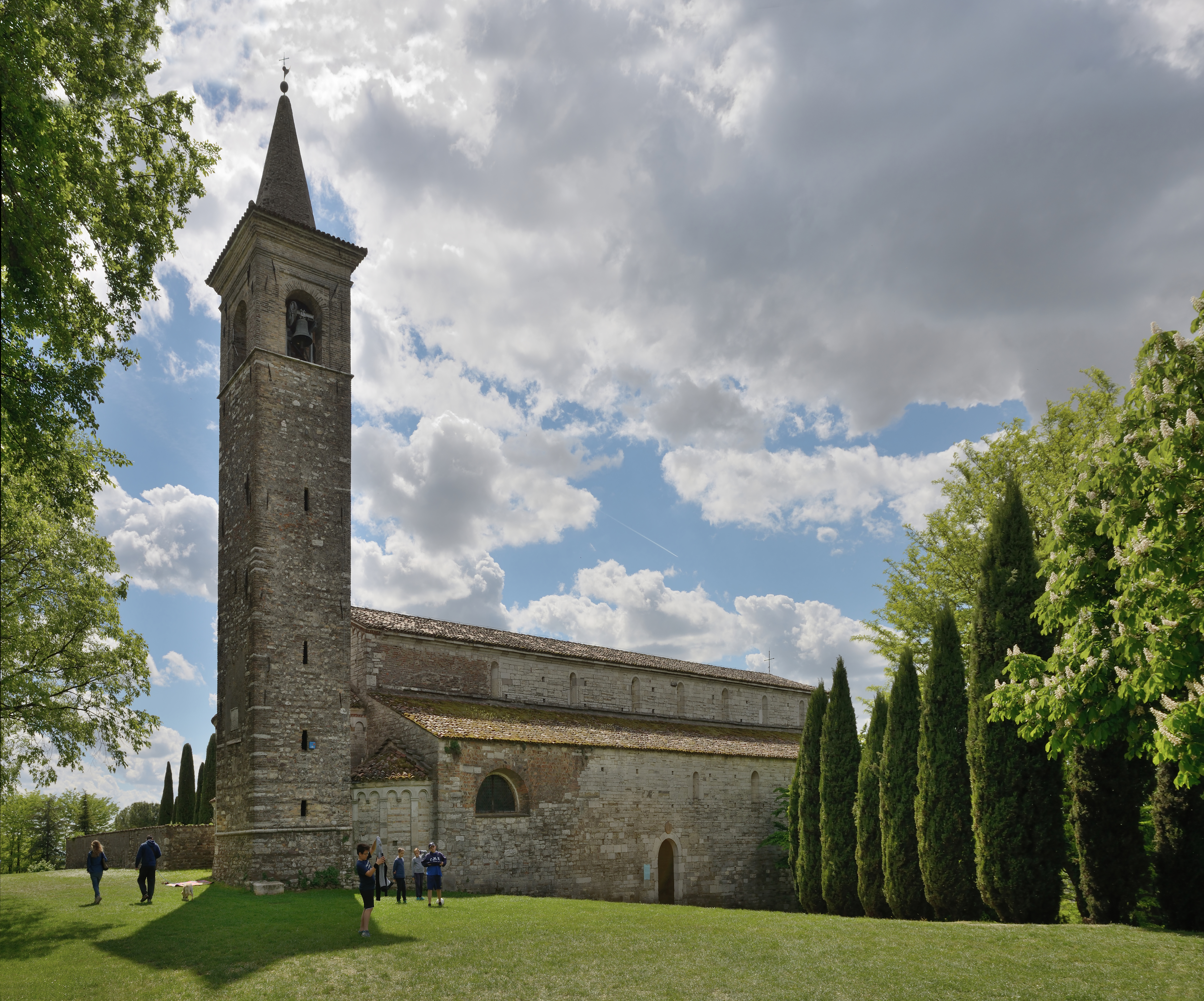 Belltower of the San Pancrazio church in Montichiari.